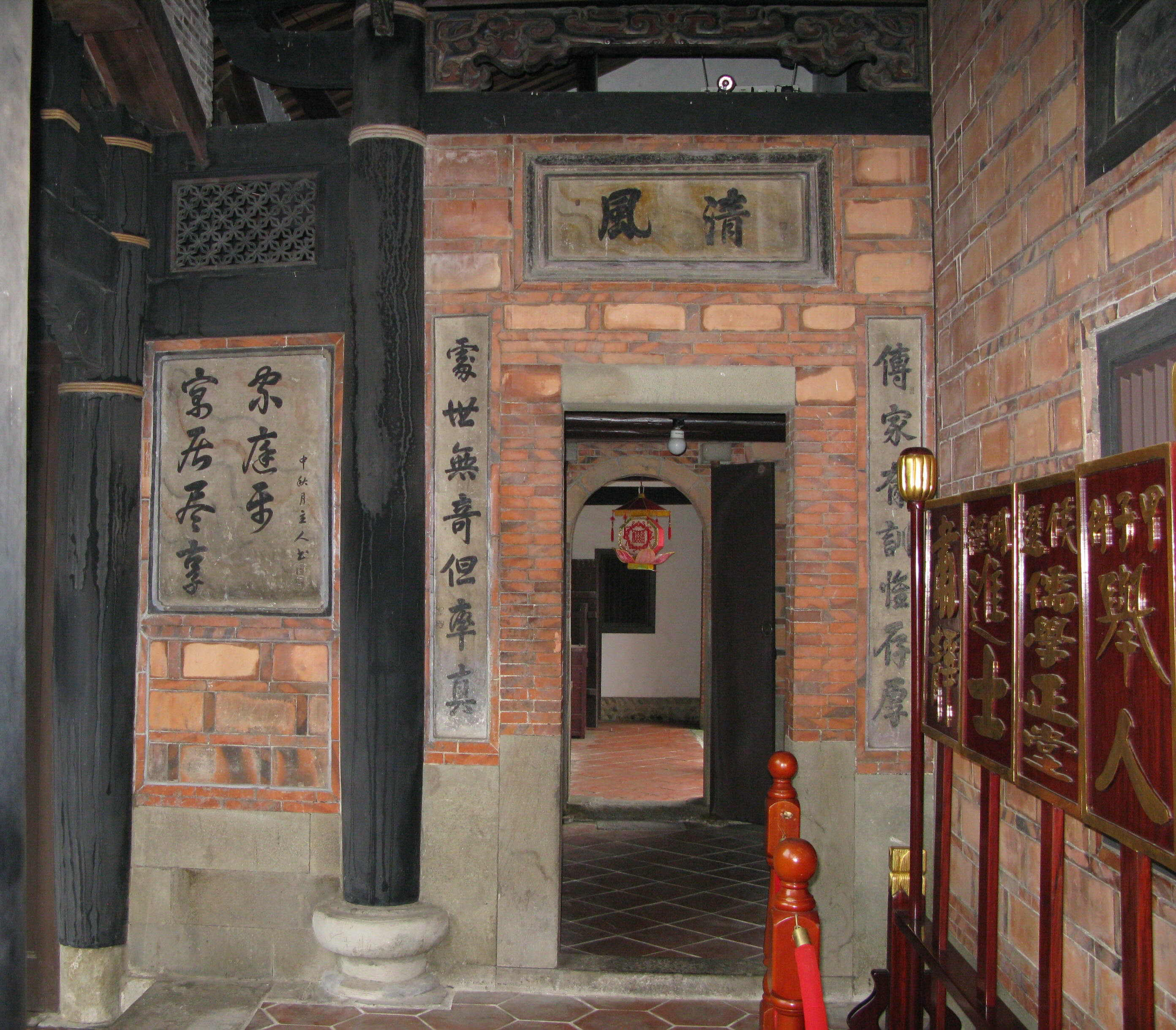 Li teng-fang Historical Home-9 ,TAIWAN.